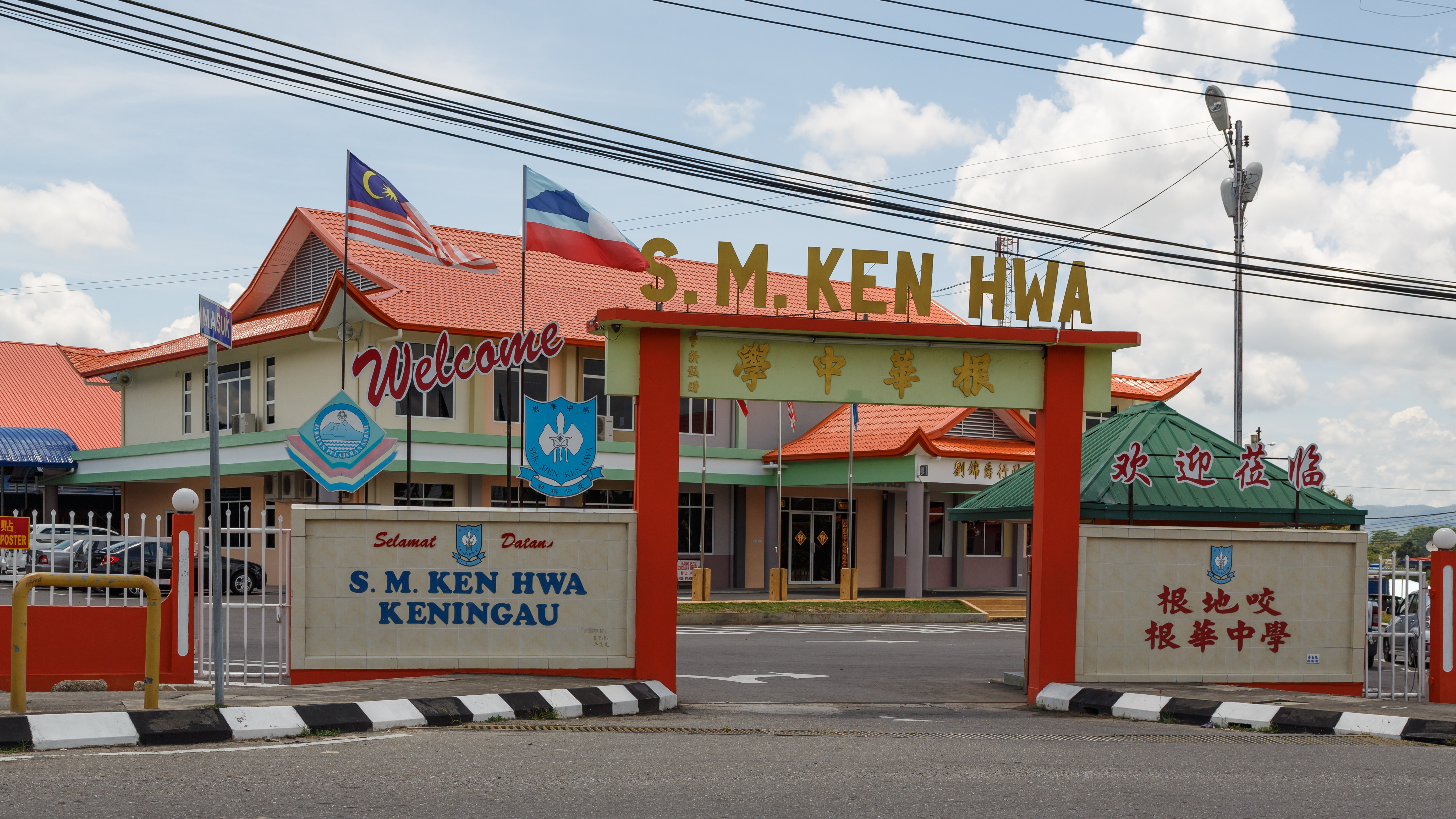 Keningau, Sabah: Sekolah Menengah Ken Hwa (CF)